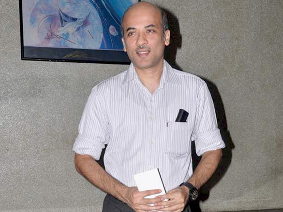 Bollywood film director Sooraj Barjatya at Vir Das' show